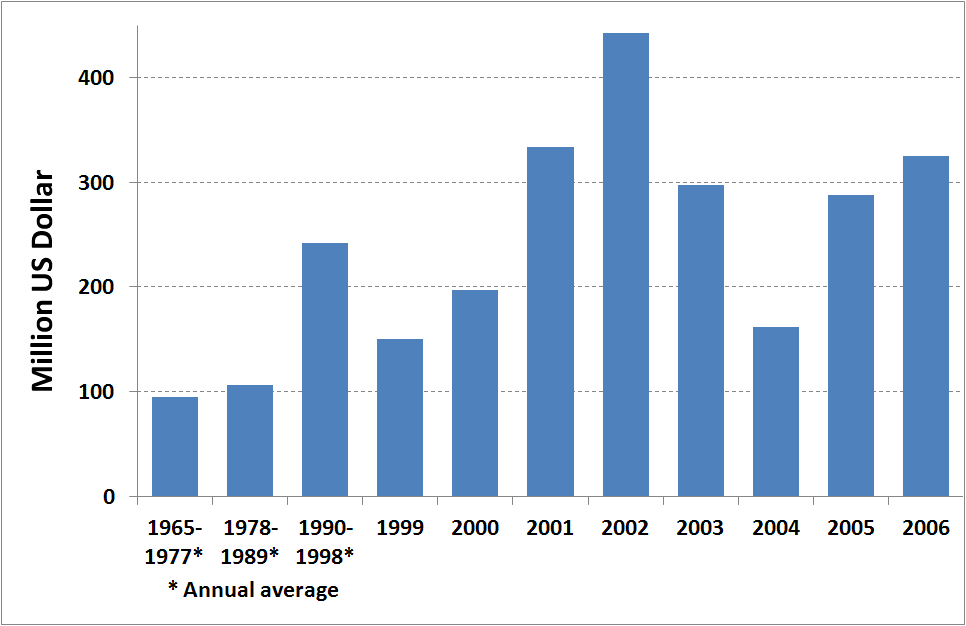 Anual investment in the Chilean sector of water supply and sanitation since 1965